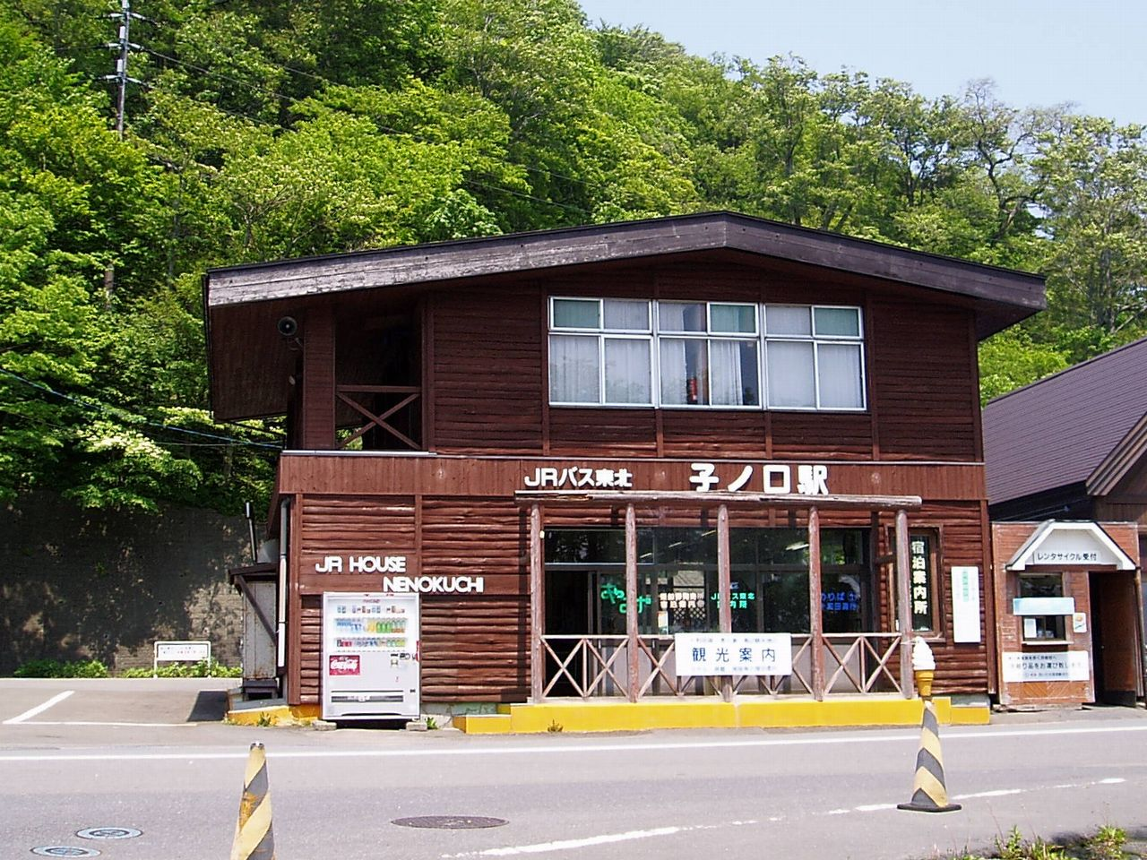 JR Bus Tohoku Nenokuchi Sta.